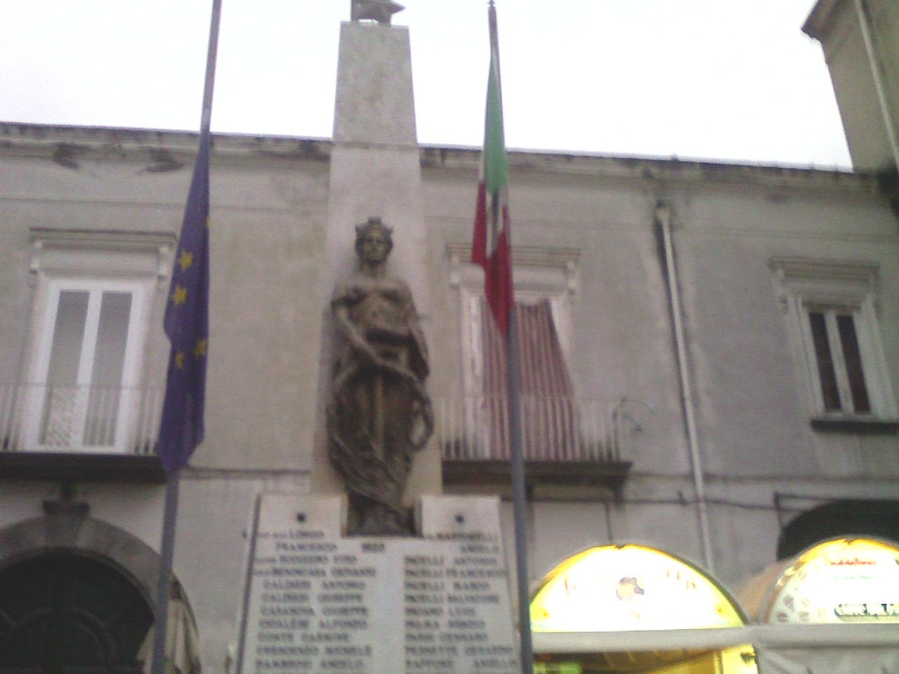 Monument of Antifascism in San Valentino Torio, Italy